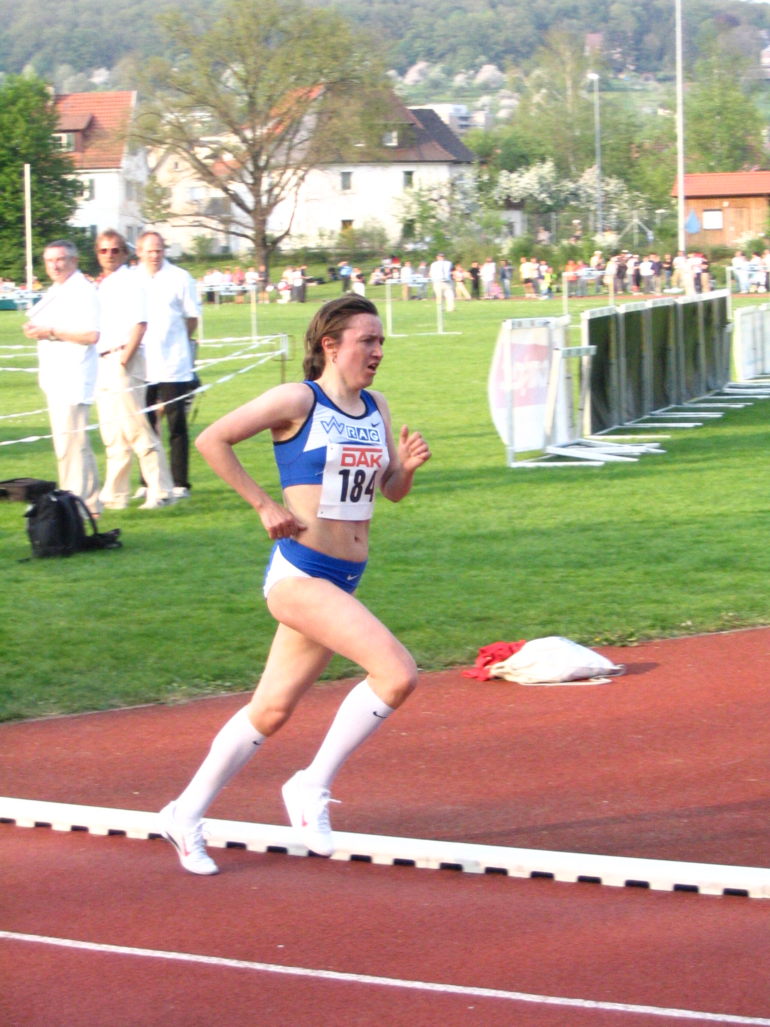 Irina Mikitenko at German championship 10.000 m in Tübingen, 2006.